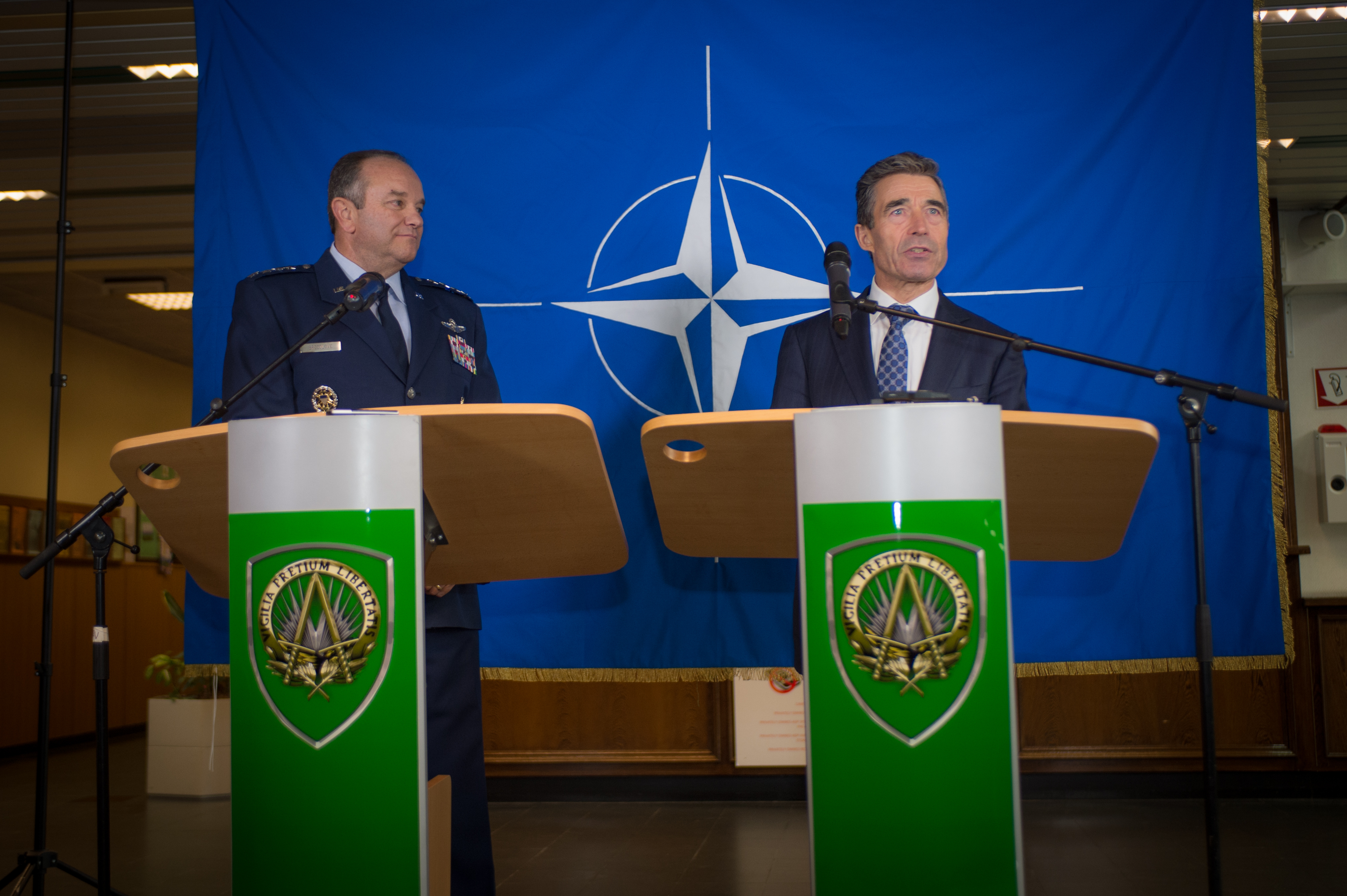 Gen. Philip Breedlove, U.S. Air Force, assumed command of Allied Command Operations from Adm. James Stavridis, U.S. Navy, at a change of command ceremony held at the Supreme Headquarters Allied Powers Europe on May 1, 2013. Gen. Breedlove is the 17th American officer to hold this prestigious position of Supreme Allied Commander Europe. (NATO photo by Sgt Emily Langer GER Army)